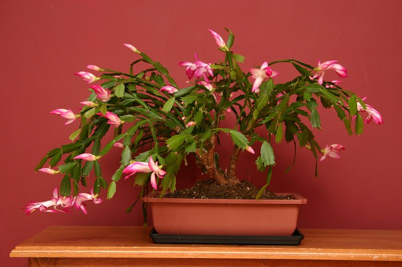 Christmas cactus potted and trimmed in the bonsai style. Personal note: since this photo was taken, the plant has died from going dry once too often. Surprisingly, this cactus does not tolerate dry roots.